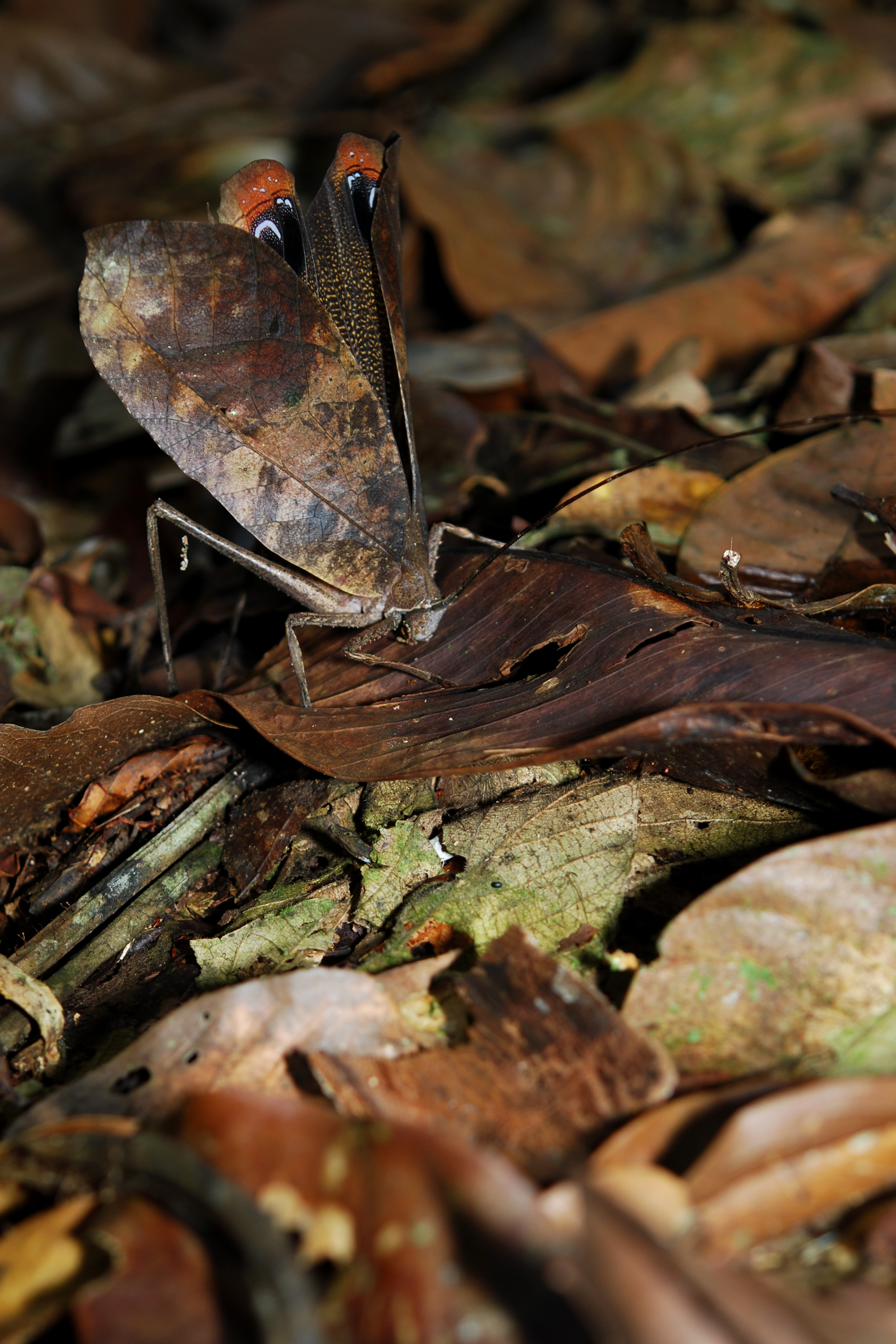 Tettigoniidae: Pterochroza ocellata In defensive stance. For more information, follow the link below